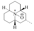 Coccinelline structure